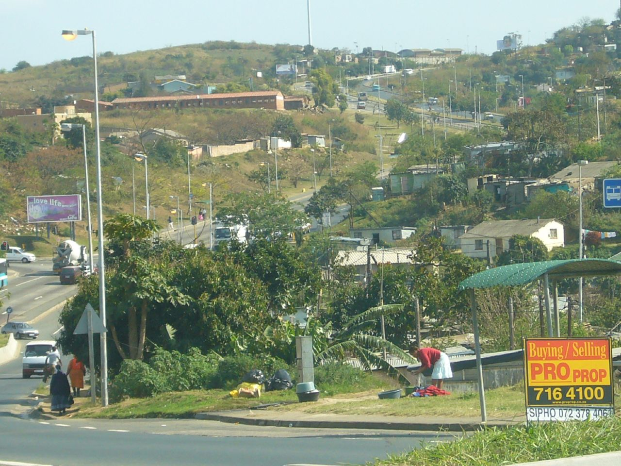 Umlazi is a huge township near Durban. Note the woman washing her laundry at the public tap.